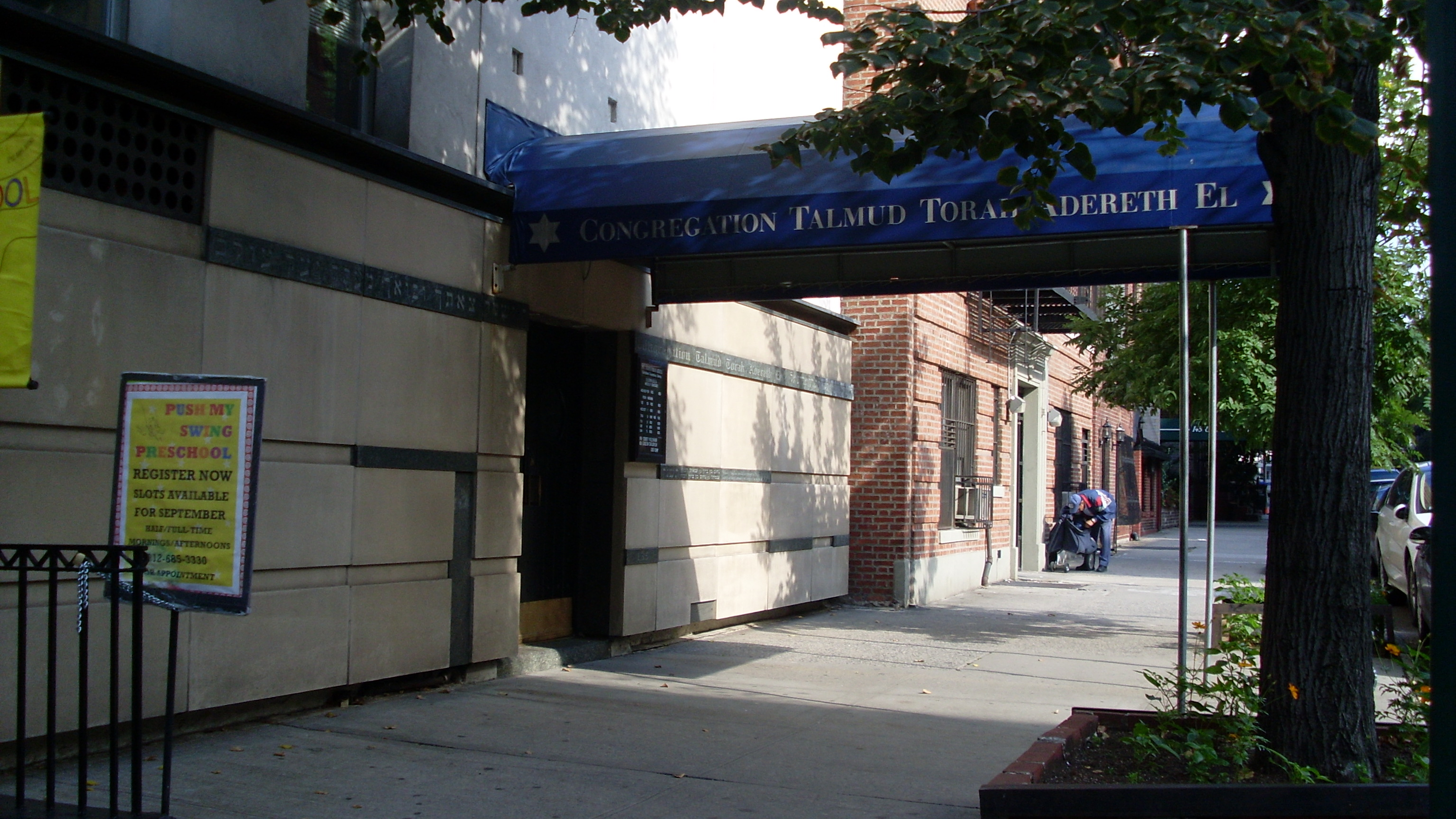 This photo is of Wikis Take Manhattan goal code D14, Congregation Talmud Torah Adereth El.